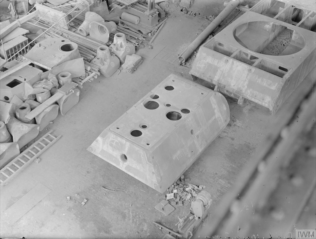 "Maus turret and hull abandoned in factory, 1945"